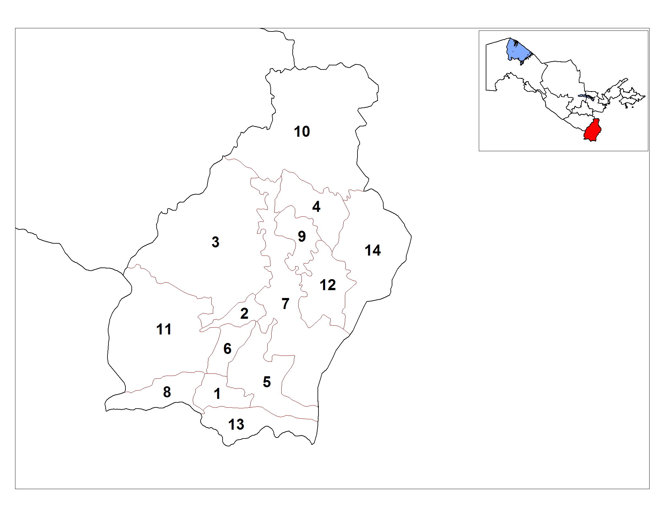 Map of the districts (tuman) of the province (viloyat) of Surxondaryo in Uzbekistan.